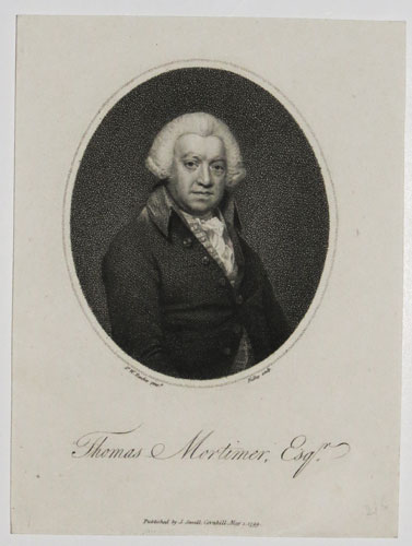 Portrait of Thomas Mortimer (1730–1810), English writer.